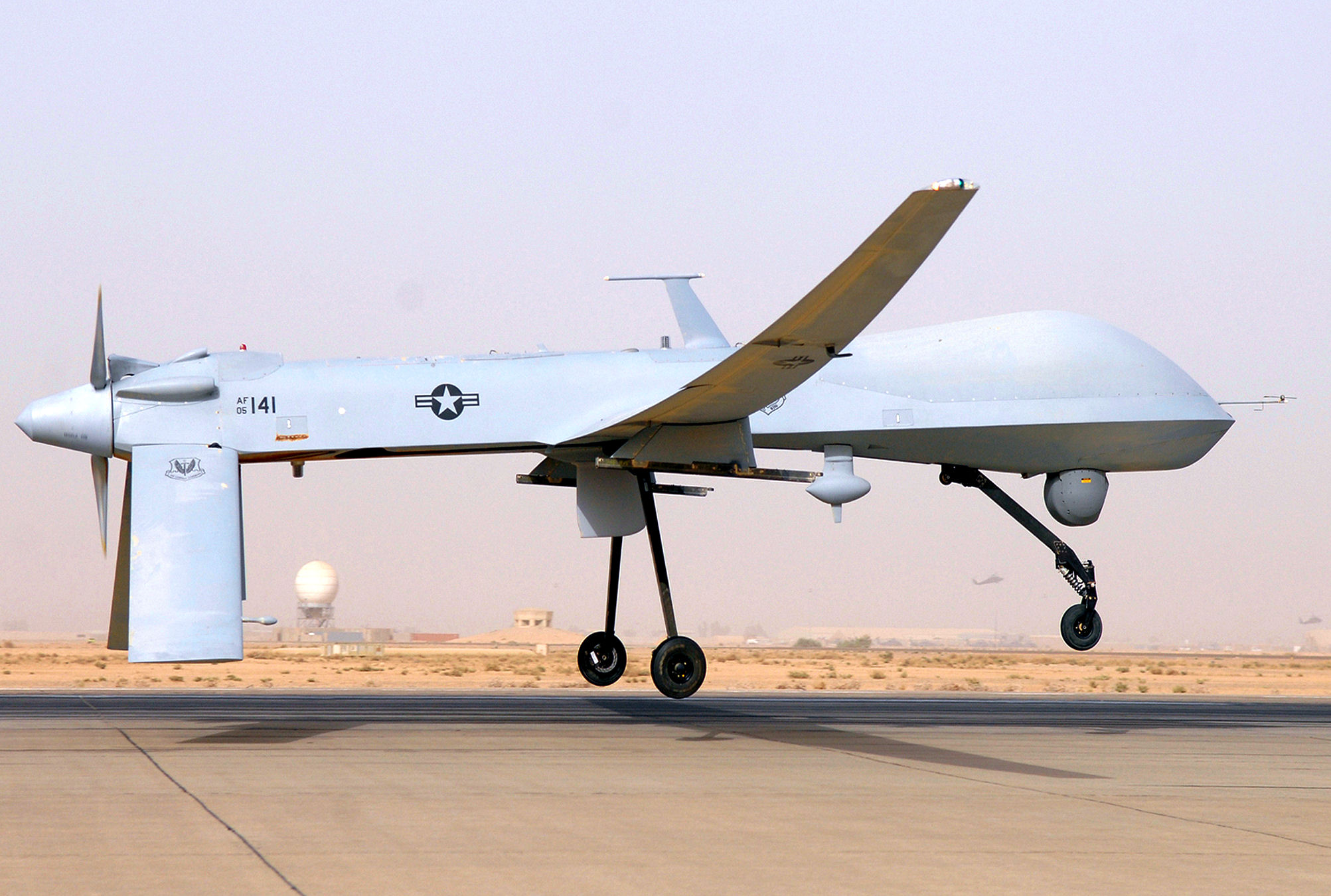 An MQ-1 Predator unmanned aircraft prepares for takeoff in support of operations in Southwest Asia